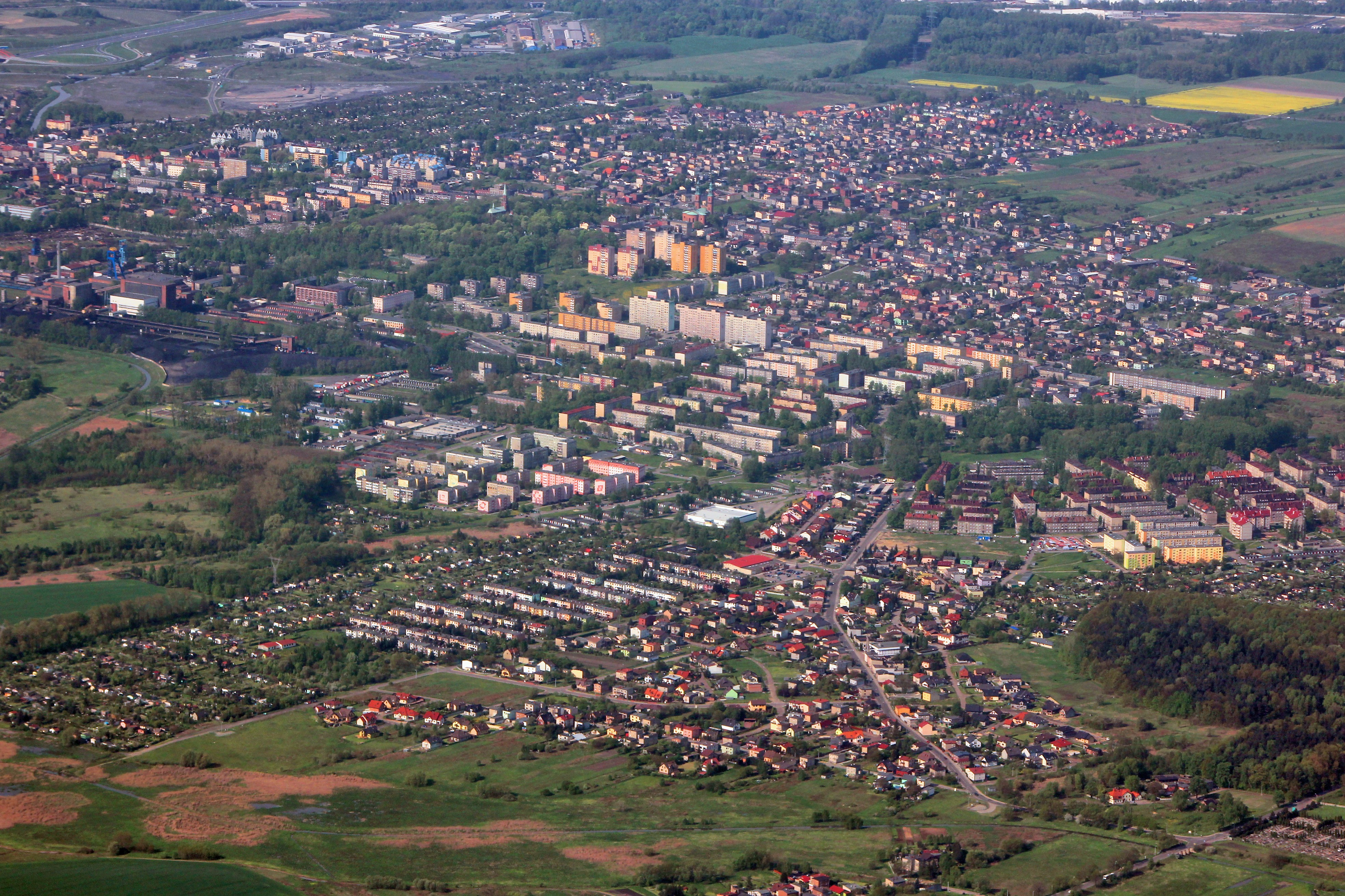 View from the northeast towards Piekary Śląskie, Poland.